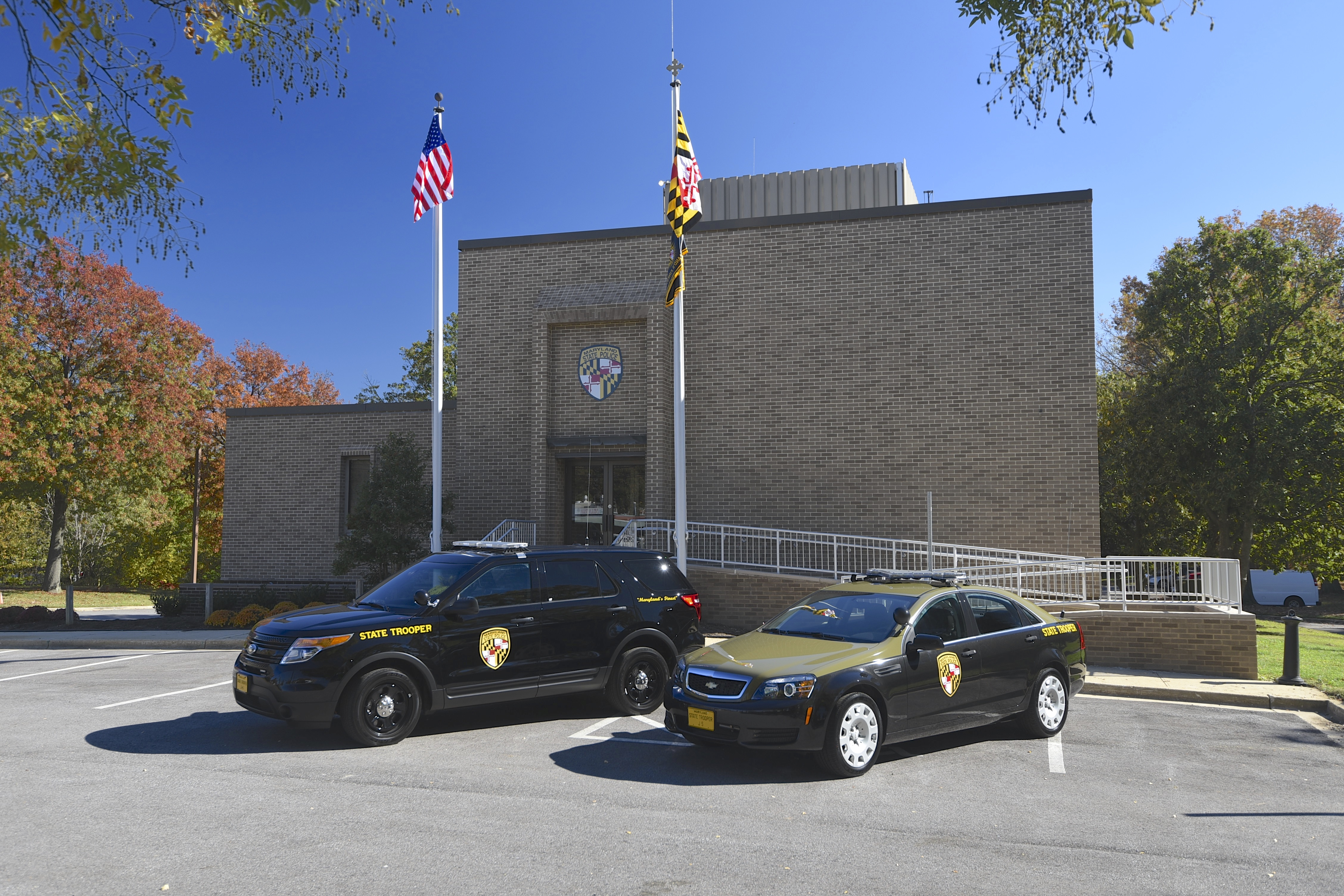 Press Conference at Maryland State Police Barracks, Annapolis Governor Hogan announces the Reopening of the Annapolis Maryland State Police Barracks. by Joe Andrucyk and Joe Amy at Annapolis State Police Barracks, 610 Taylor Avenue, Annapolis Maryland 21401